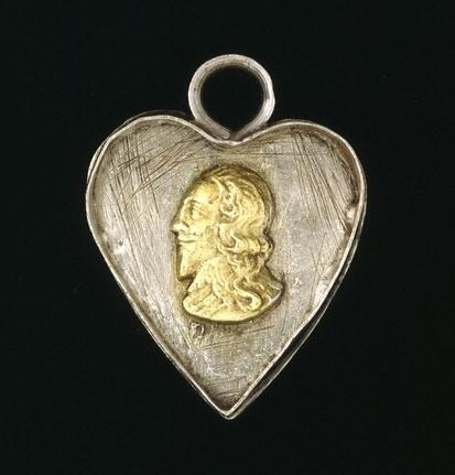 Locket, 1650-1700 V&A Museum no. 827-1864 Techniques - Silver and silver gilt, with applied decoration Artist/designer - Unknown Place- England Dimensions - Height 3.6 cm (including ring), Width 2.4 cm, Depth 0.65 cm Object Type - Many lockets with royal portraits were made in the second half of the 17th century to show support for the Stuart kings. Historical Associations - The execution of Charles I in 1649 inspired numerous images on medals, rings, pendants and lockets. The objects ranged from modest ornaments like this one to gold jewels as well as reliquaries that contained fragments of material soaked in the blood of the executed King. For some people Charles became a religious martyr whose feast day was kept on the anniversary of his execution. From 1662 to 1859 the Book of Common Prayer used by the Church of England included a 'Form of Prayer with Fasting to be used yearly on the Thirtieth Day of January, to commemorate the Martyrdom of the Blessed King Charles the First in 1649'. However, support for the Stuarts was conditional, as James II was to discover in 1688 when he had to flee abroad, leaving the throne to his Protestant daughter Mary and her Dutch husband, William of Orange.